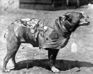 Sergeant Stubby wearing military uniform and decorations.